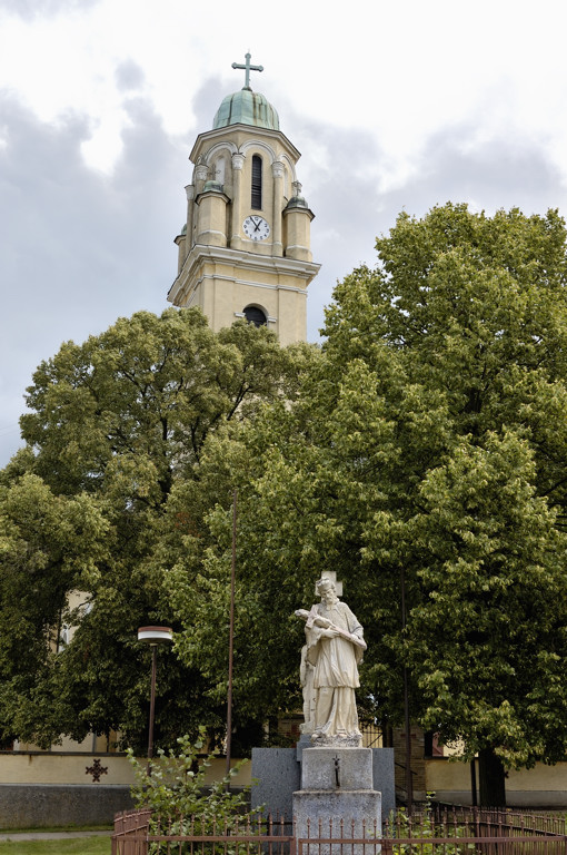 Church in Brodské